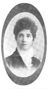 Mrs. Emelie Tracy Y. Parkhurst